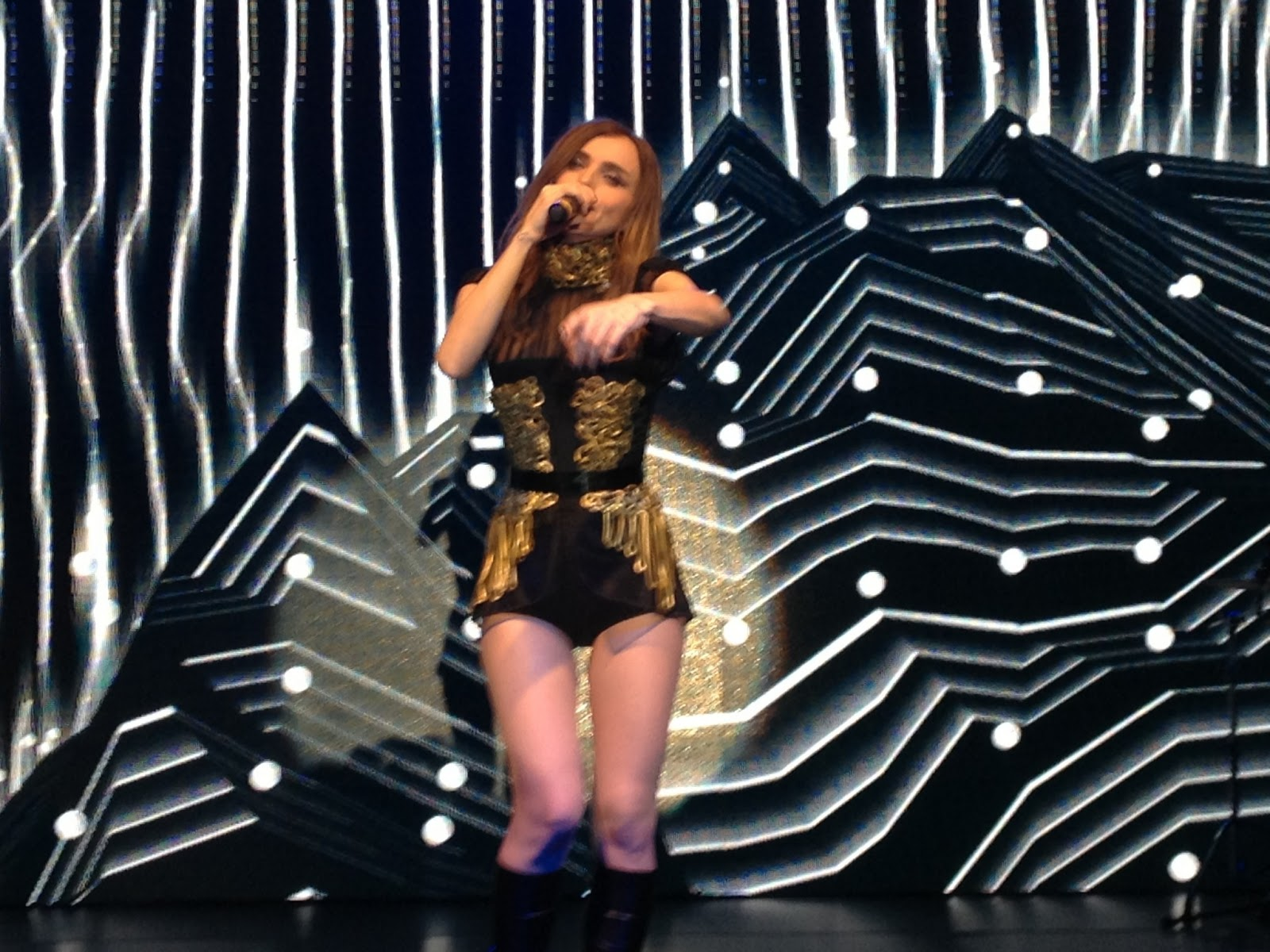 With the performance of Gülşen stage, İzmir Arena (2013).